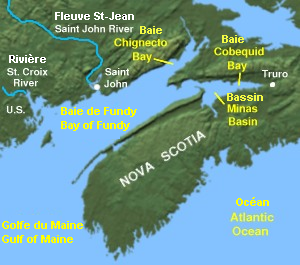 Zoom of the Bay of Fundy locations imported from English Wikipedia